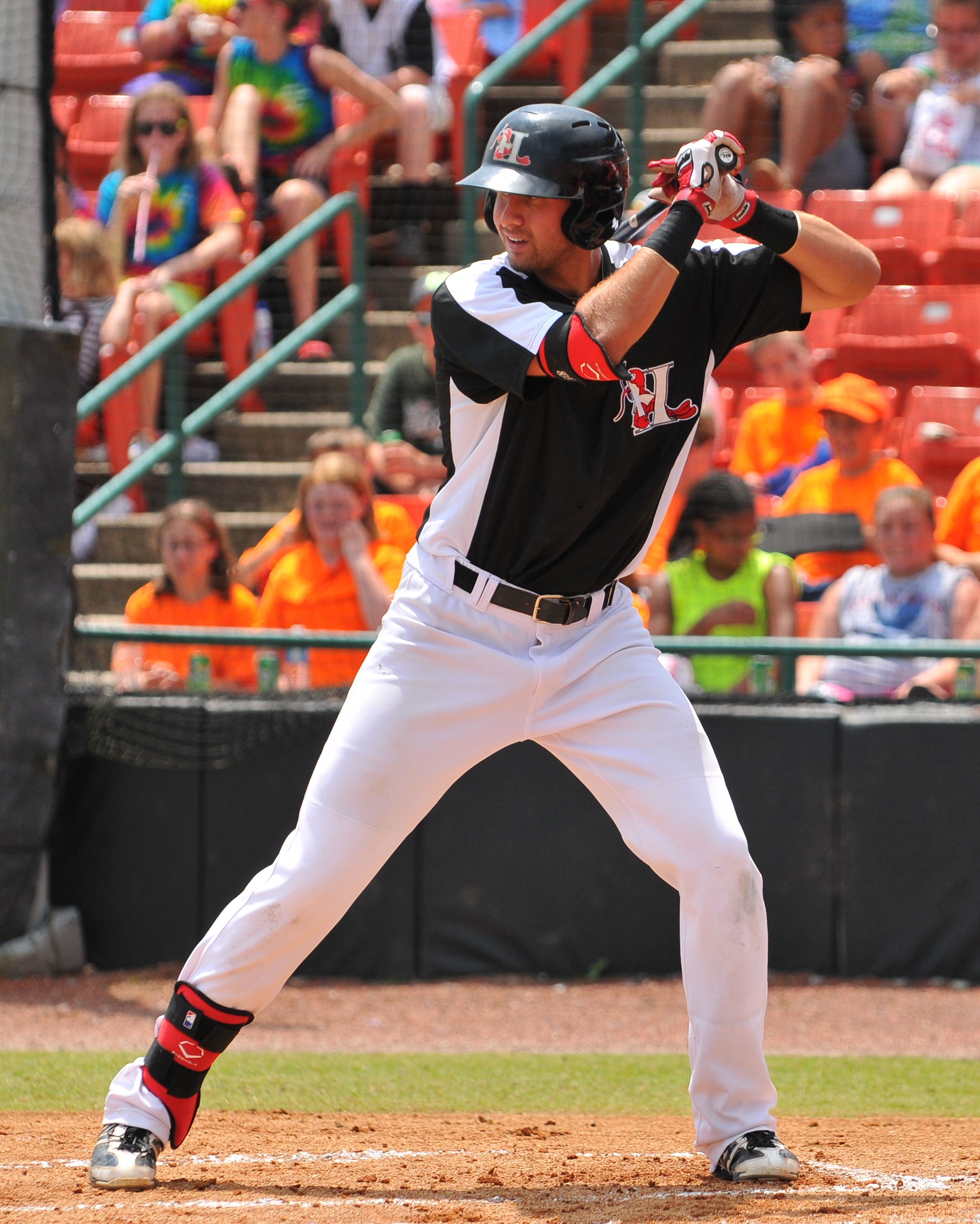 HICKORY CRAWDADS - #30 Joey Gallo - Hickory Crawdads - Lexington Legends vs Hickory Crawdads in Hickory NC June 26, 2013.